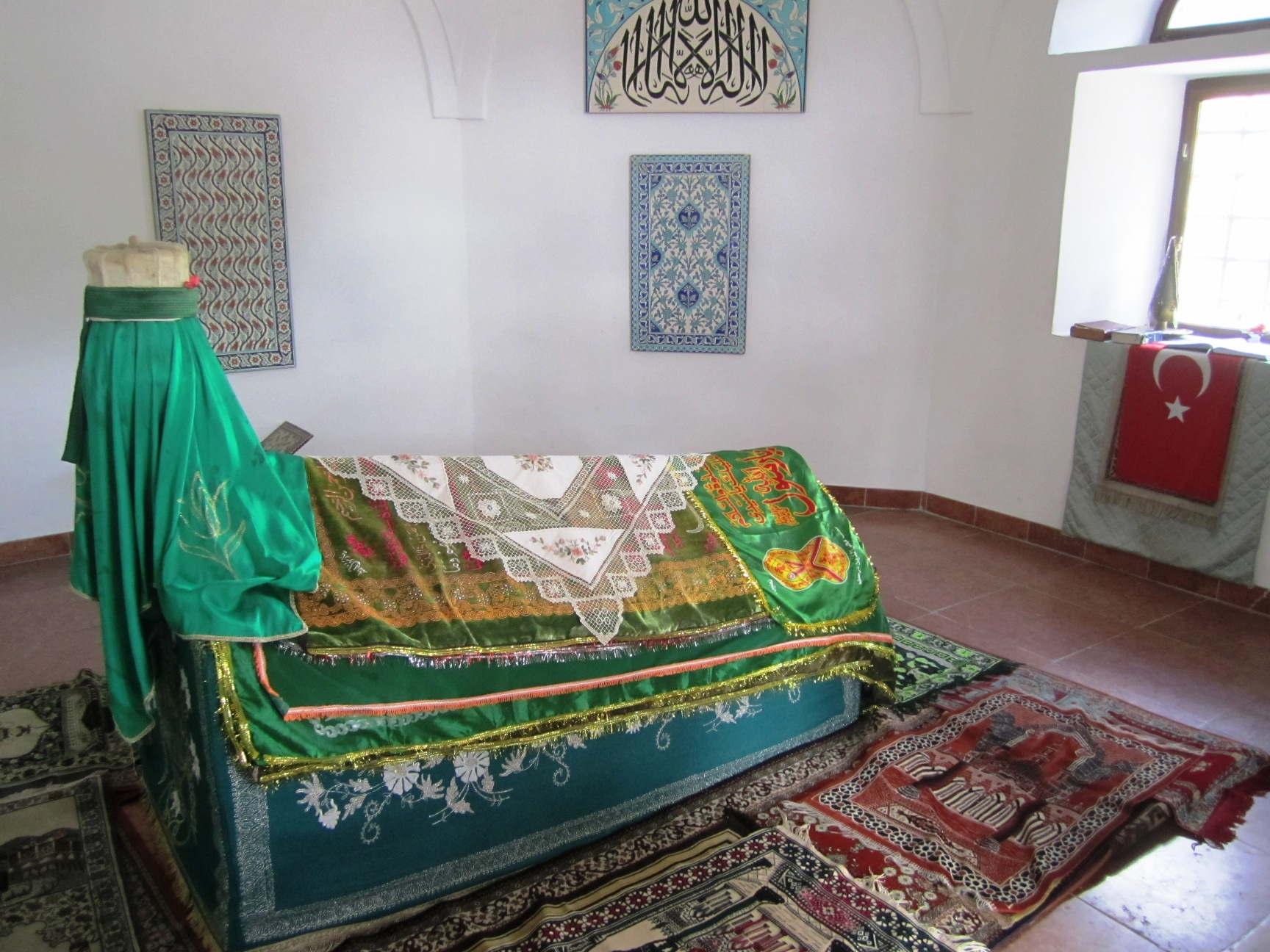 Tomb of Gül Baba